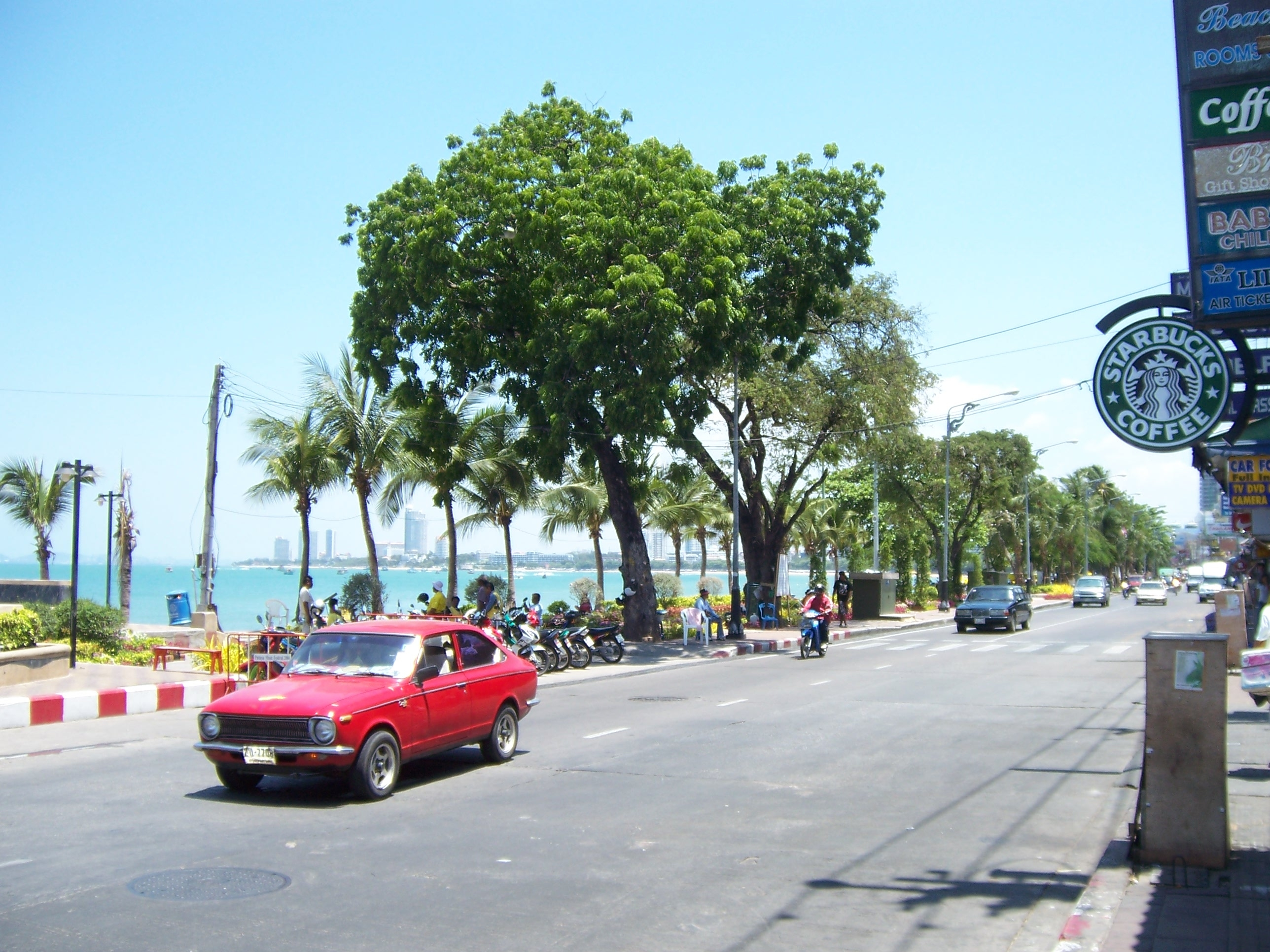 Pattaya Beach Road, April 2007